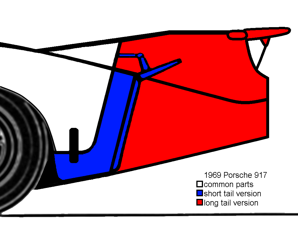 Comparison of Longtail and Shorttail of a Porsche 917 from 1969.